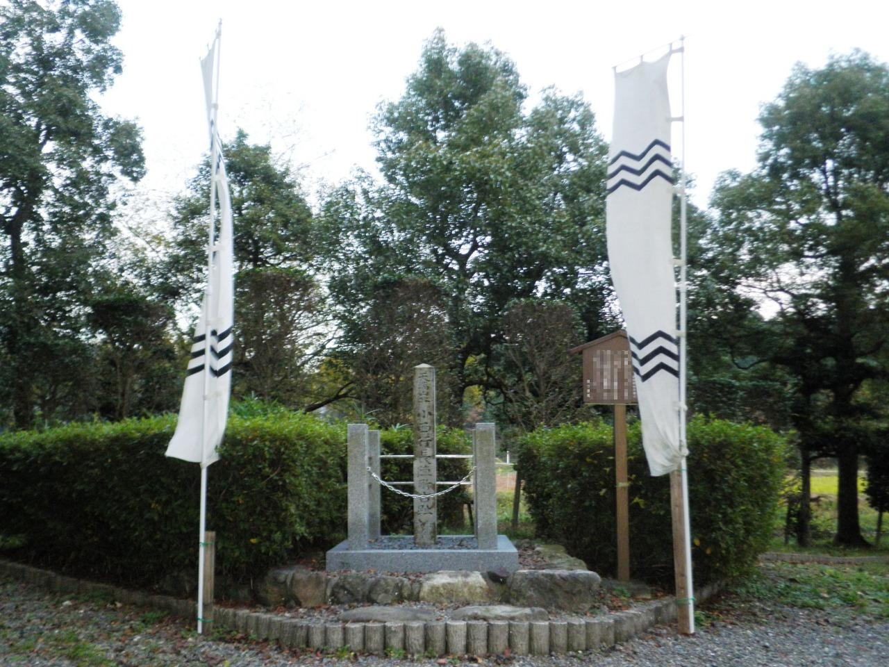 Site of Konishi Yukinaga's position in the Battle of Sekigahara.